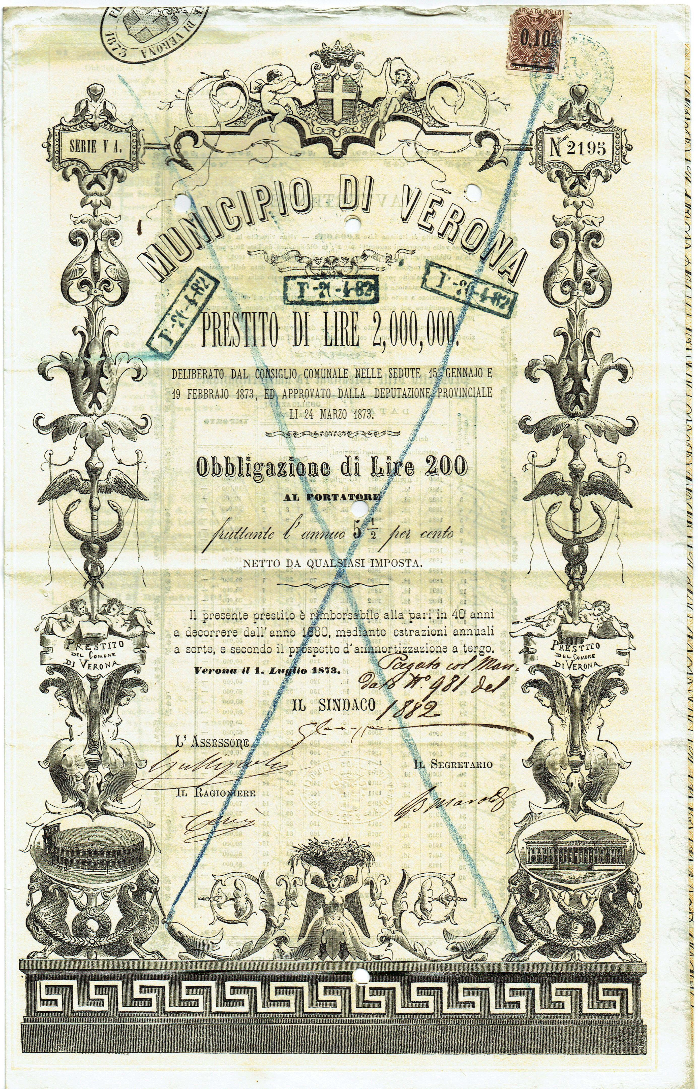 Bond of Verona, issued 1. July 1873